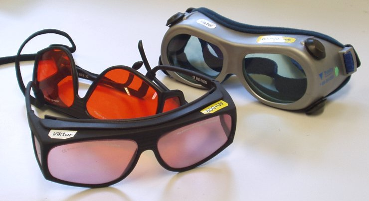 Laser protection eyewear. Photograph by Han-Kwang.